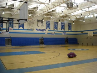 Boys' Gymnasium - This is where major indoor sporting events are held.